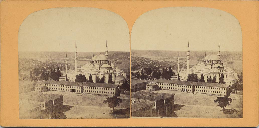 The Süleymaniye Mosque — in Istanbul, the Ottoman Empire.